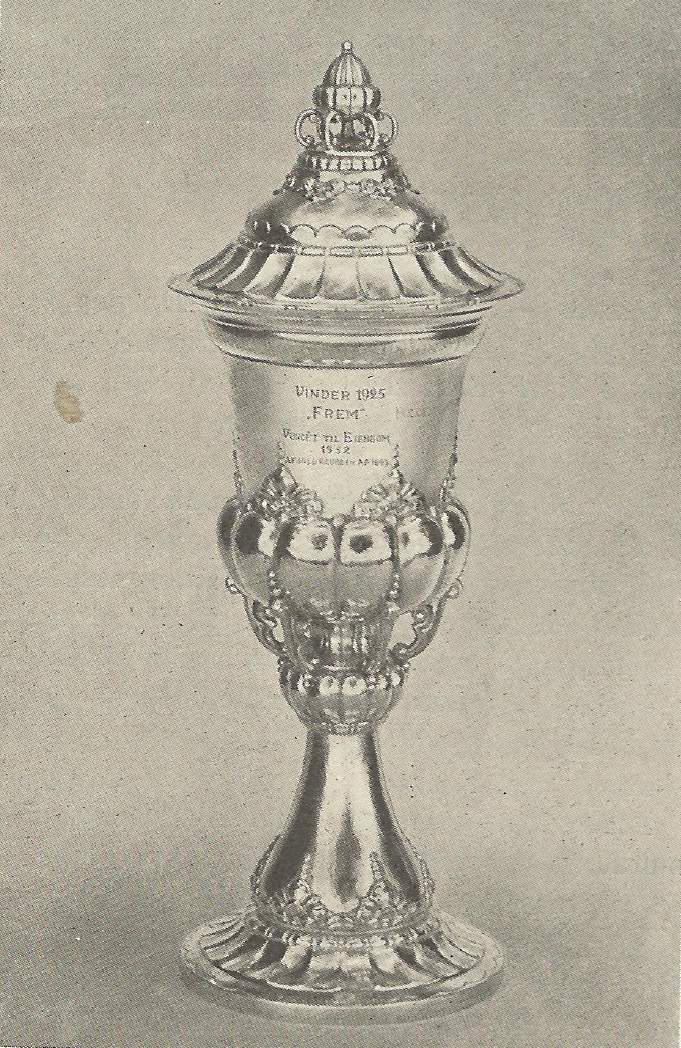 Second trophy (1925-1932) of KBUs Pokalturnering — the second trophy distributed during the history of KBUs Pokalturnering, and won for permanent ownership by B.93. Displayed on the trophy are some of the previous winners of the cup and a text indicating ownership.